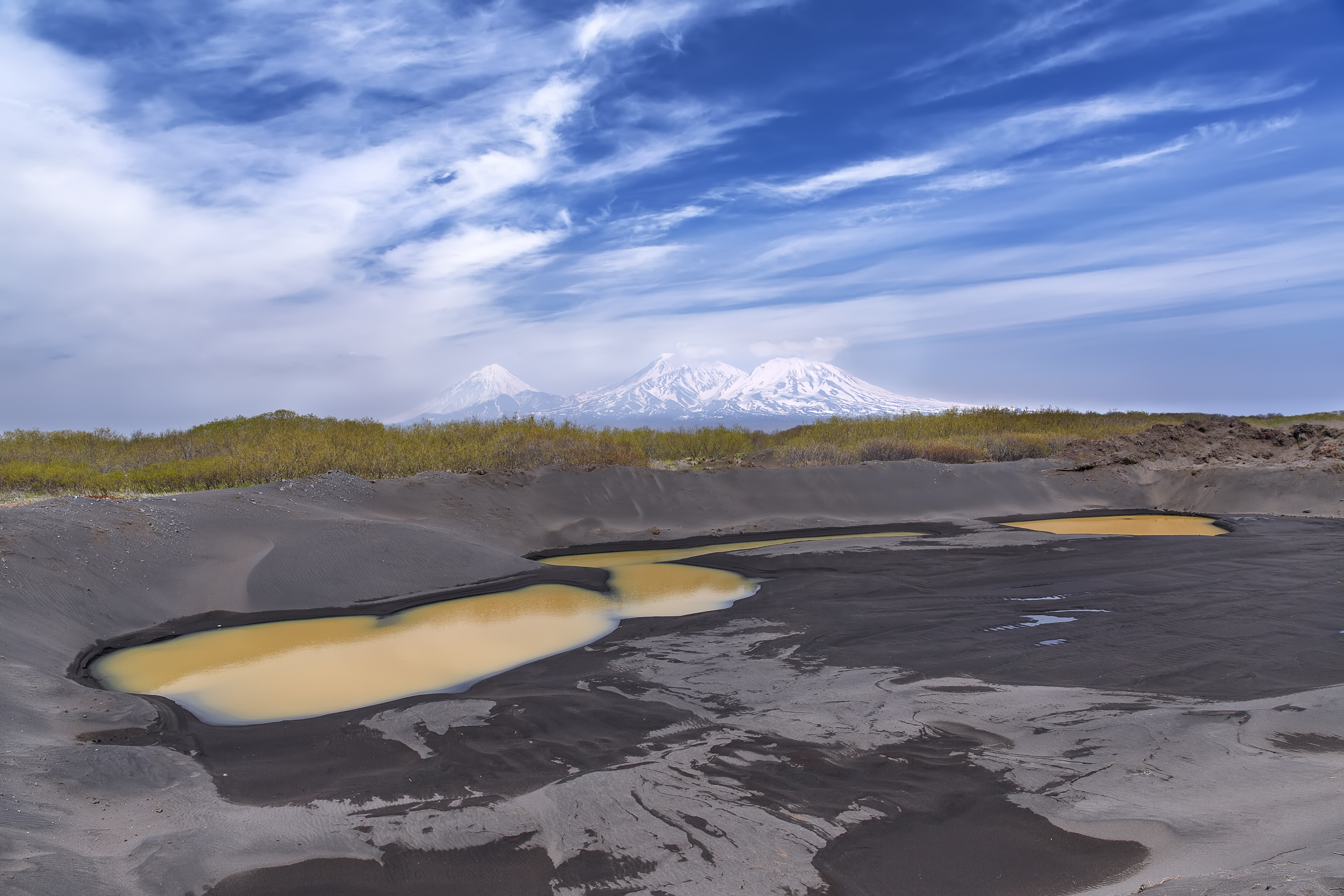 Three Volcanoes: Elizovsky District, Kamchatka Territory This image is related to the protected area of Russia number 4110063